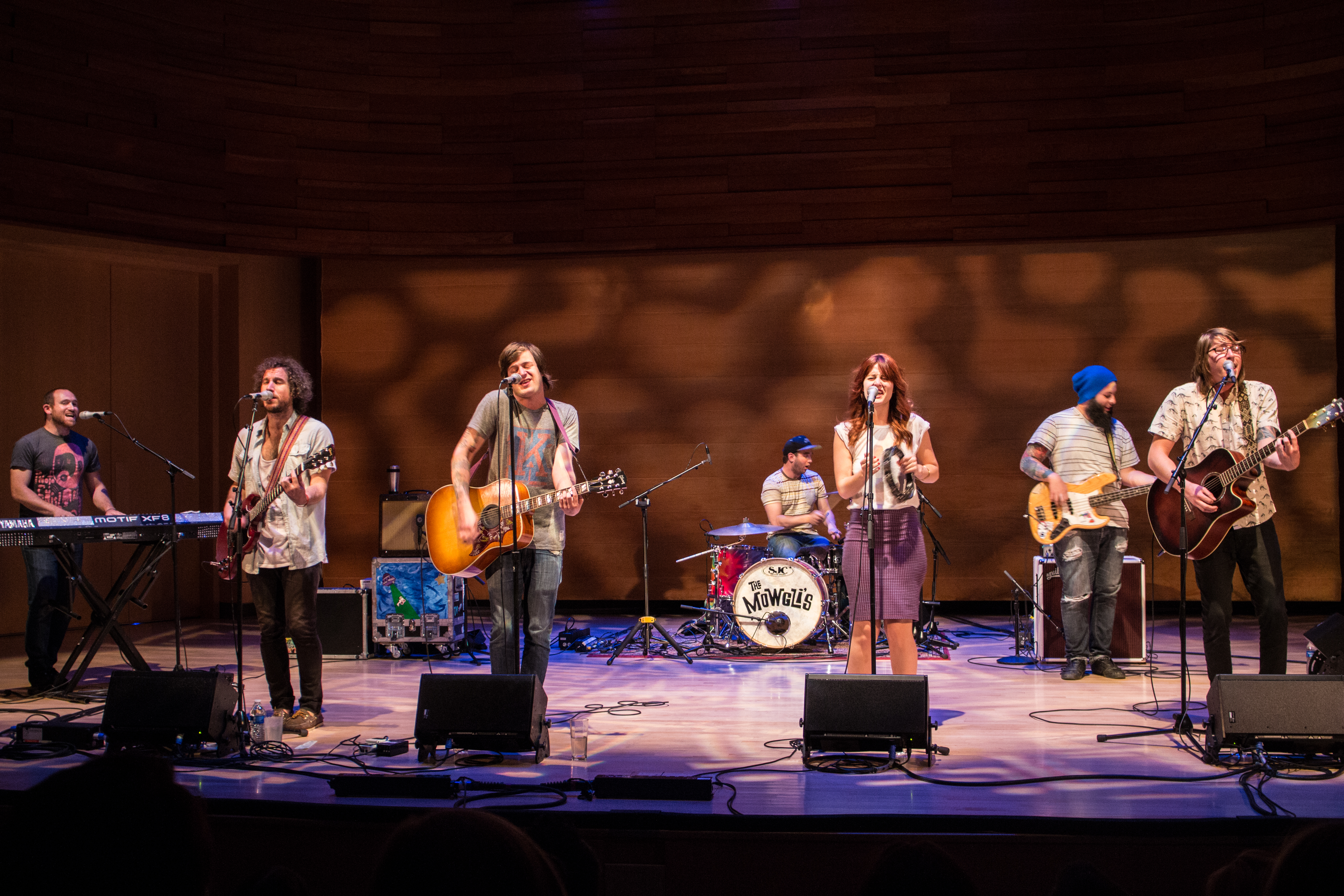 The Mowgli's play the Musical Instrument Museum in Phoenix, Az on 05 May, 2014